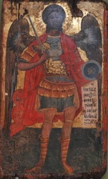 Archangel Michael Icon from Archangels Church in Serres, Serres Church Museum